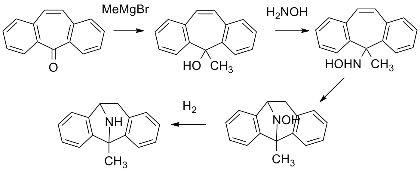 Eur. Pat. Appl. 66773